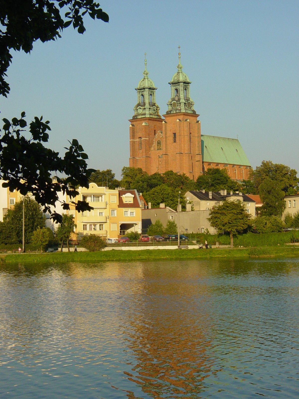 Church of Gniezno and the lake Jelonek in the city center.